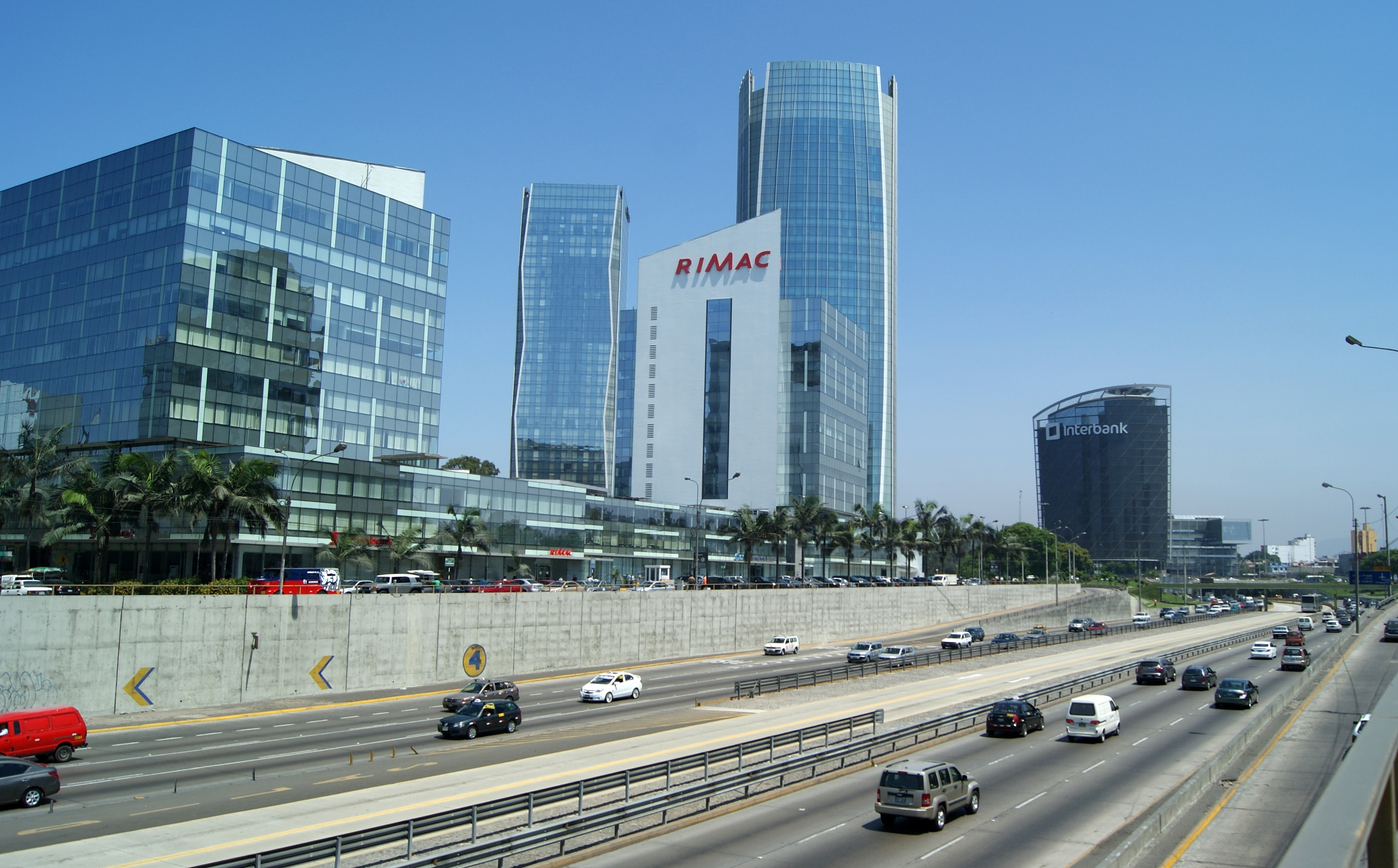 Lima, Peru (San Isidro District). December 2013.